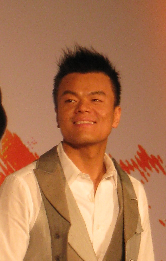 Park Jin-young at press conf. of Wonder Girls The First Wonder Live In Bangkok.